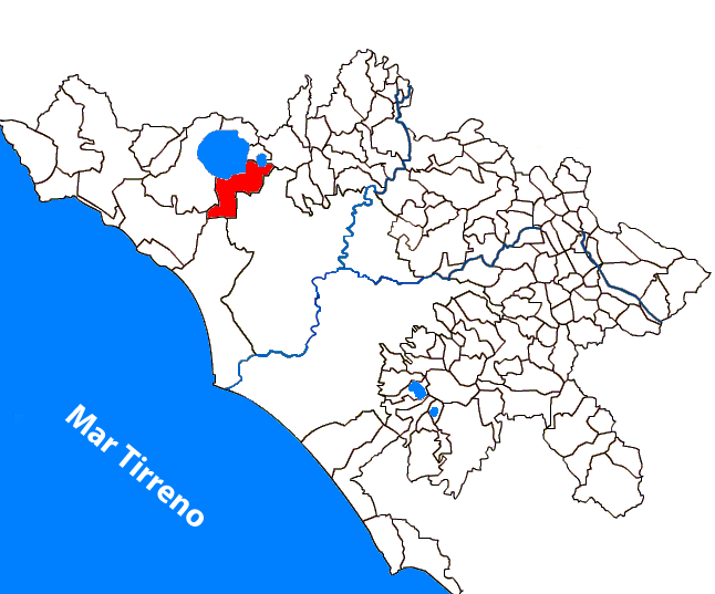 Anguillara Sabazia position